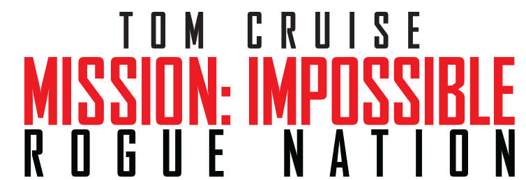 Mission Impossibleː Rogue Nation